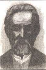 portrait of Yordan Hadzhikonstantinov-Dzhinot